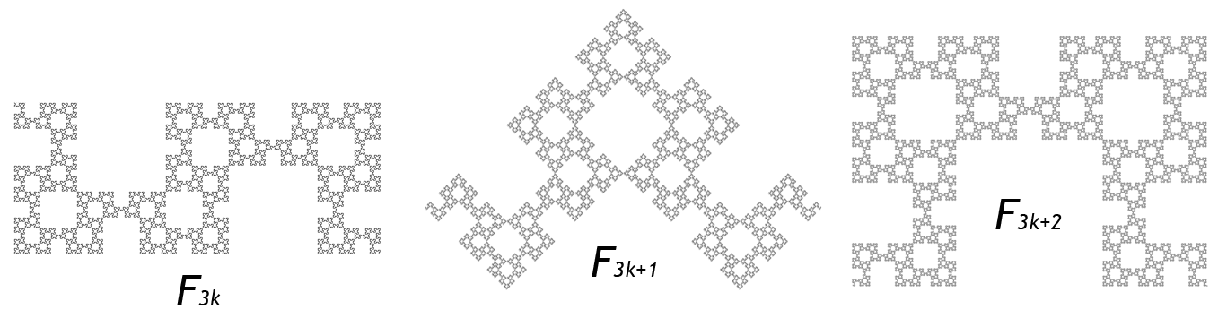 The three types of Fibonacci word fractals curves, containing F_n segments. F_n being the nth Fibonacci number.